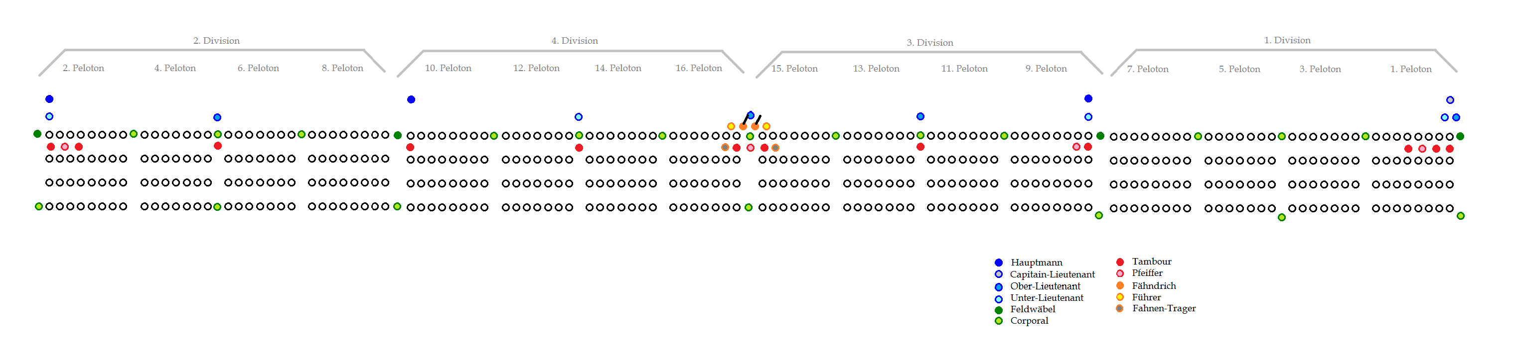 Austrian infantry battalion in 1749.